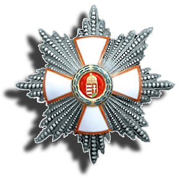 Order of Merit with grand cross and star (Republic of Hungary) (military class)